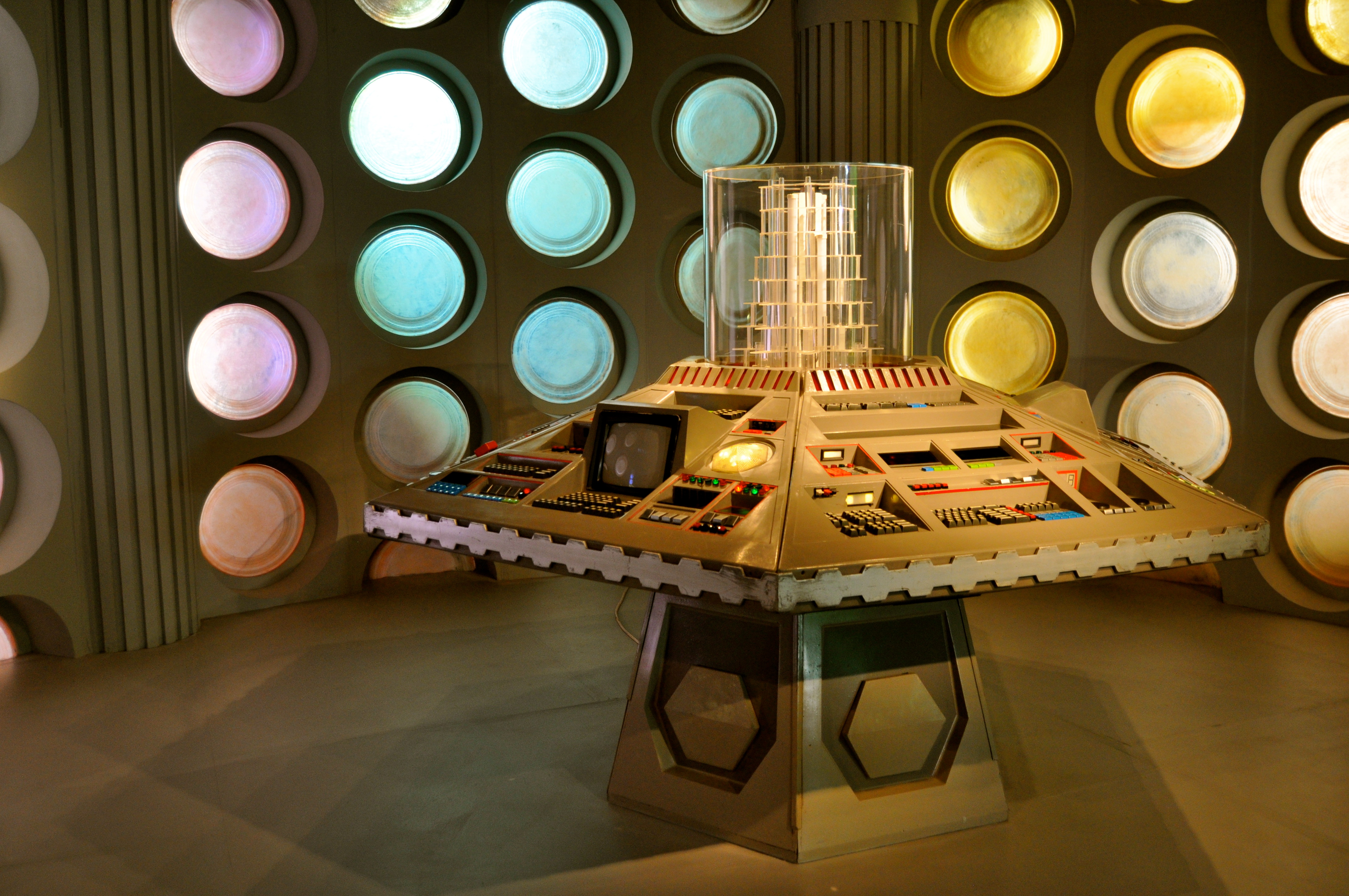 DWE Cardiff Bay, Port Teigr November 2016 Doctor Who Experience